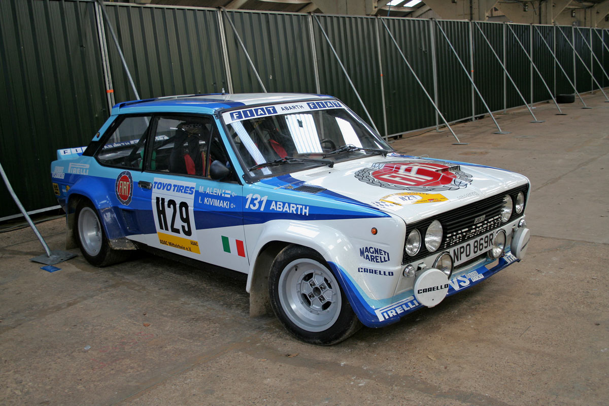 Fiat 131 Abarth at 2006 International Historic Motorsport Show. Stoneleigh Park Coventry